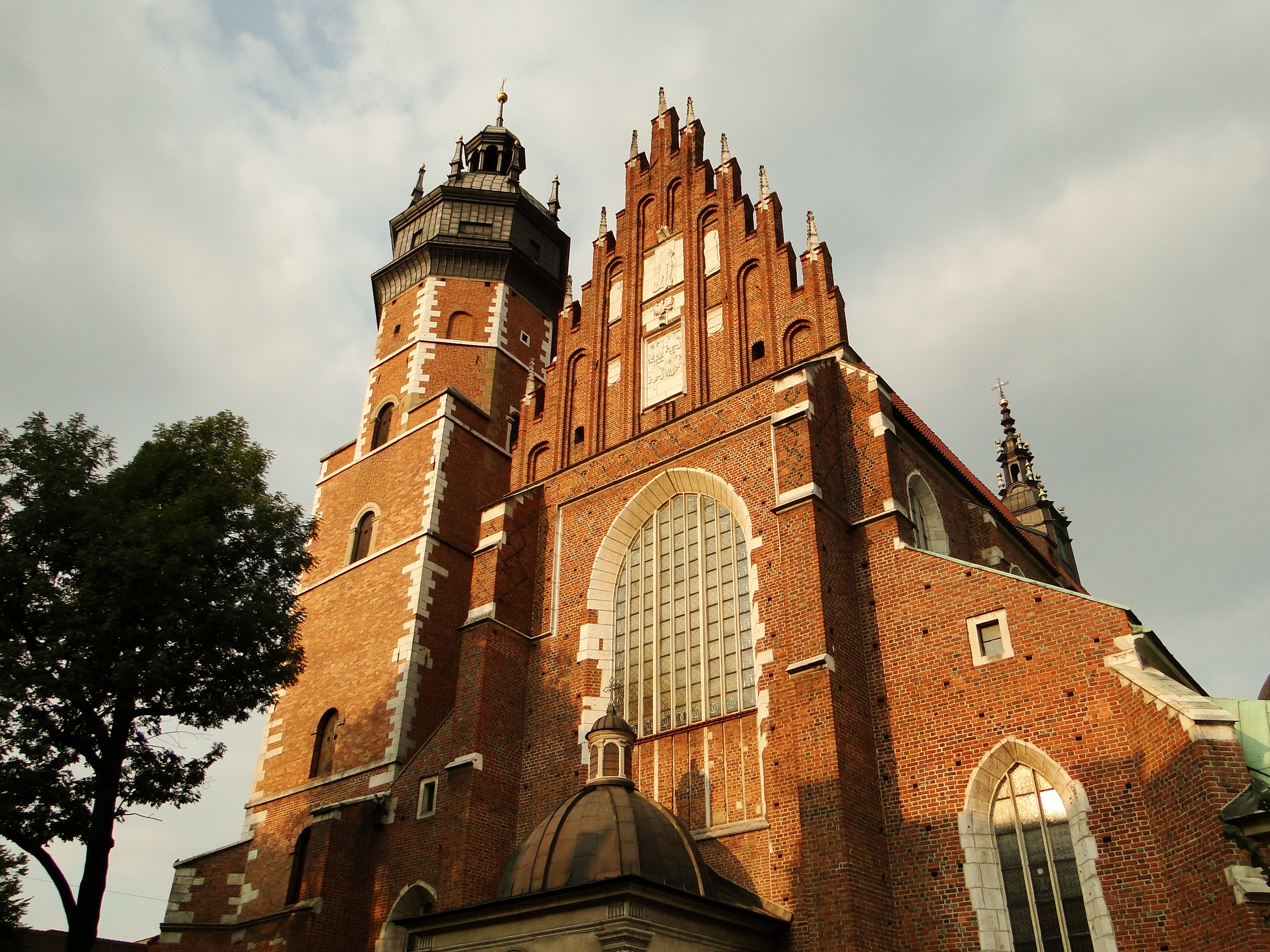 Corpus Christi Basilica, Cracow, Poland